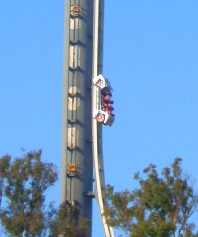 The original Tower of Terror Escape Pod. The Escape Pod (vehicle) can be seen part way up the tower. The Escape Pod was decommissioned in 2010 when a new vehicle with backwards facing seats was installed.